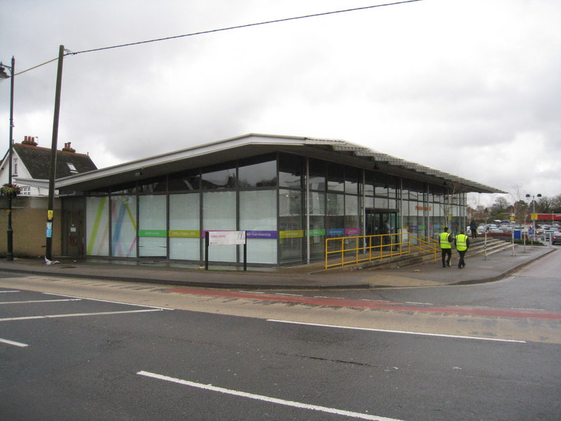 Tadley library